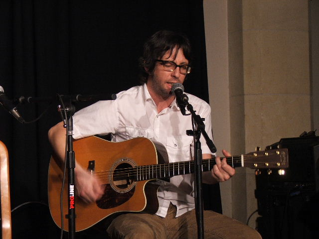 Tony Scalzo performing in Austin, Texas. Photo by Ron Baker.